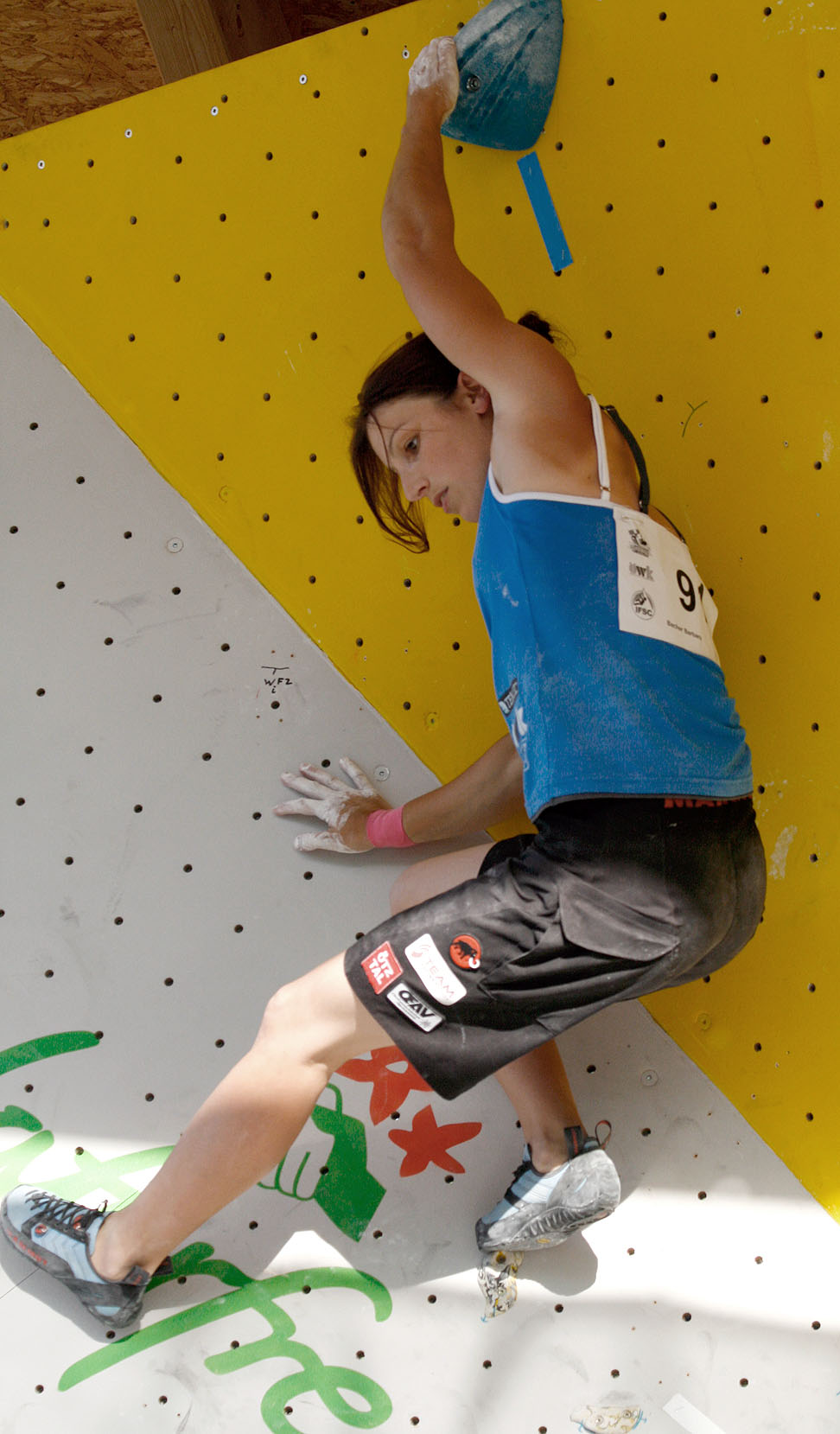 Barbara Bacher during qualifications at the IFSC Boulder Worldcup Vienna 2010.